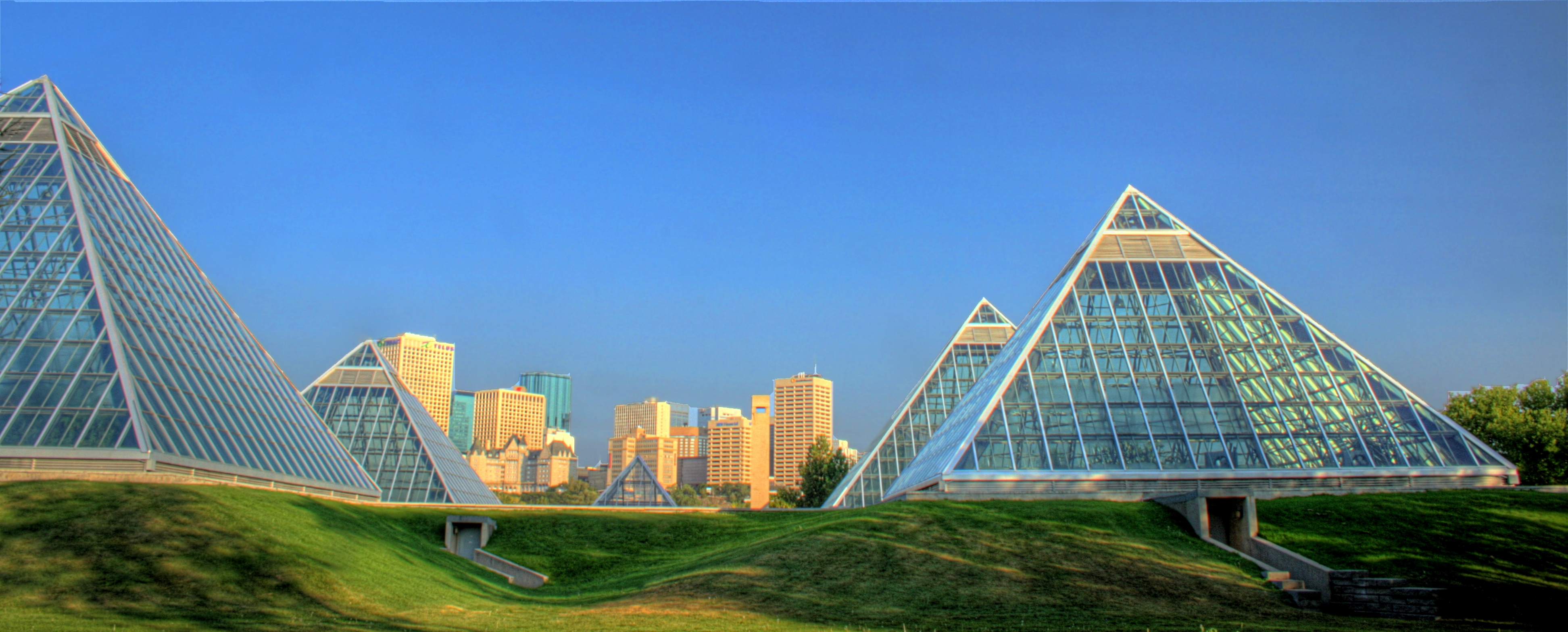 The Muttart_Conservatories in the North Saskatchewan river valley in Edmonton, Alberta, Canada.